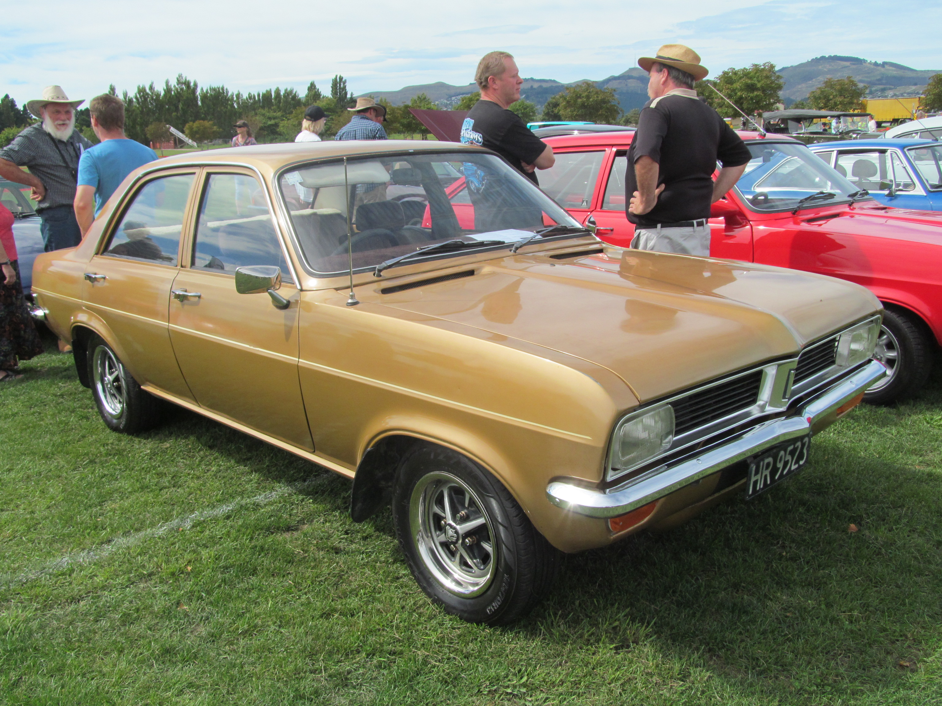 God I love these HCs in gold with those wheels... I thought this was Flickr user vauxnut's at first, but it's not. A very 70s vehicle.